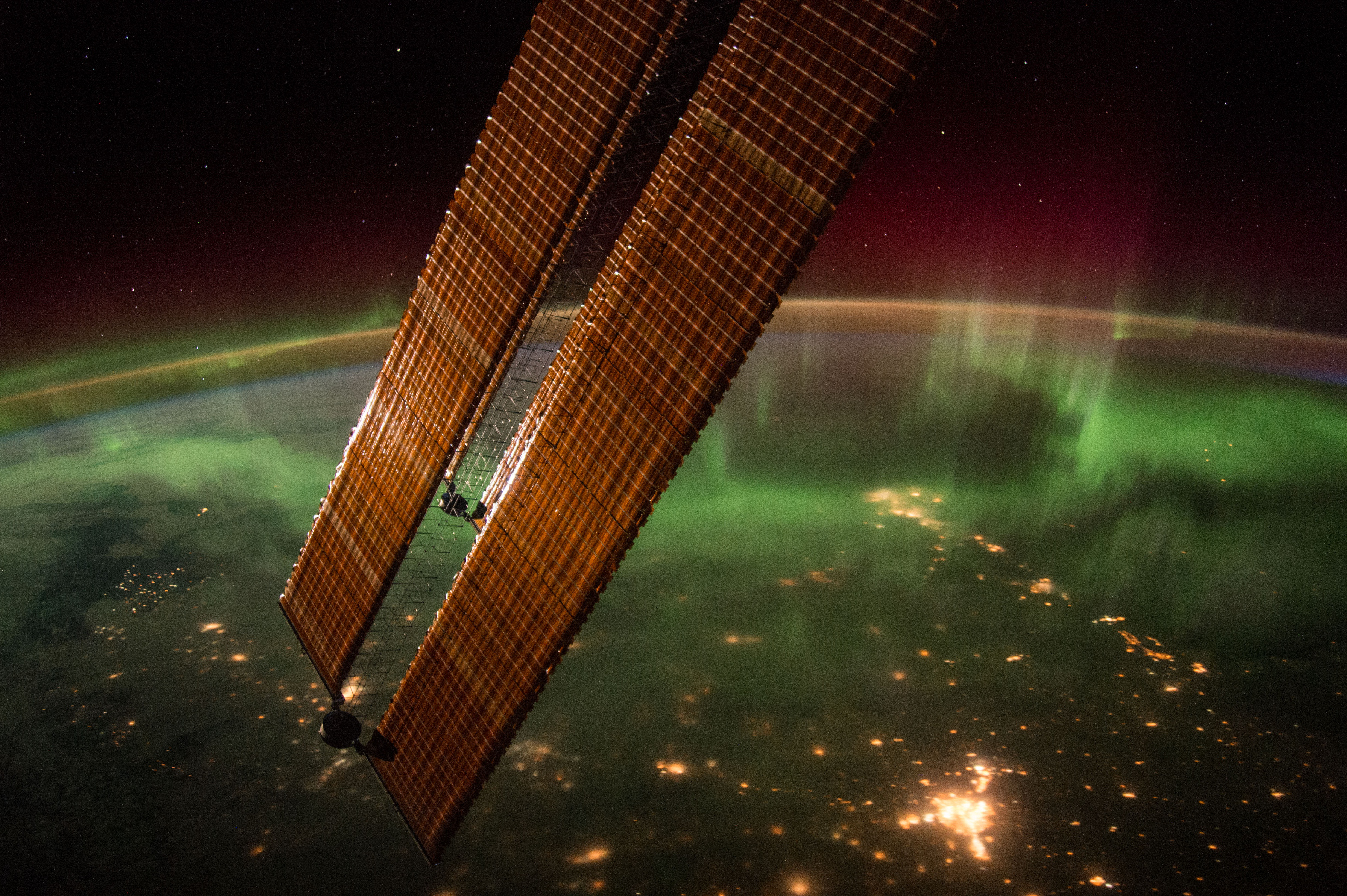 NASA astronaut Tim Kopra tweeted this image with the comment: "Another awesome #aurora shot. Courtesy of @StationCDRKelly - who btw just hit 300 days here (this time)!"